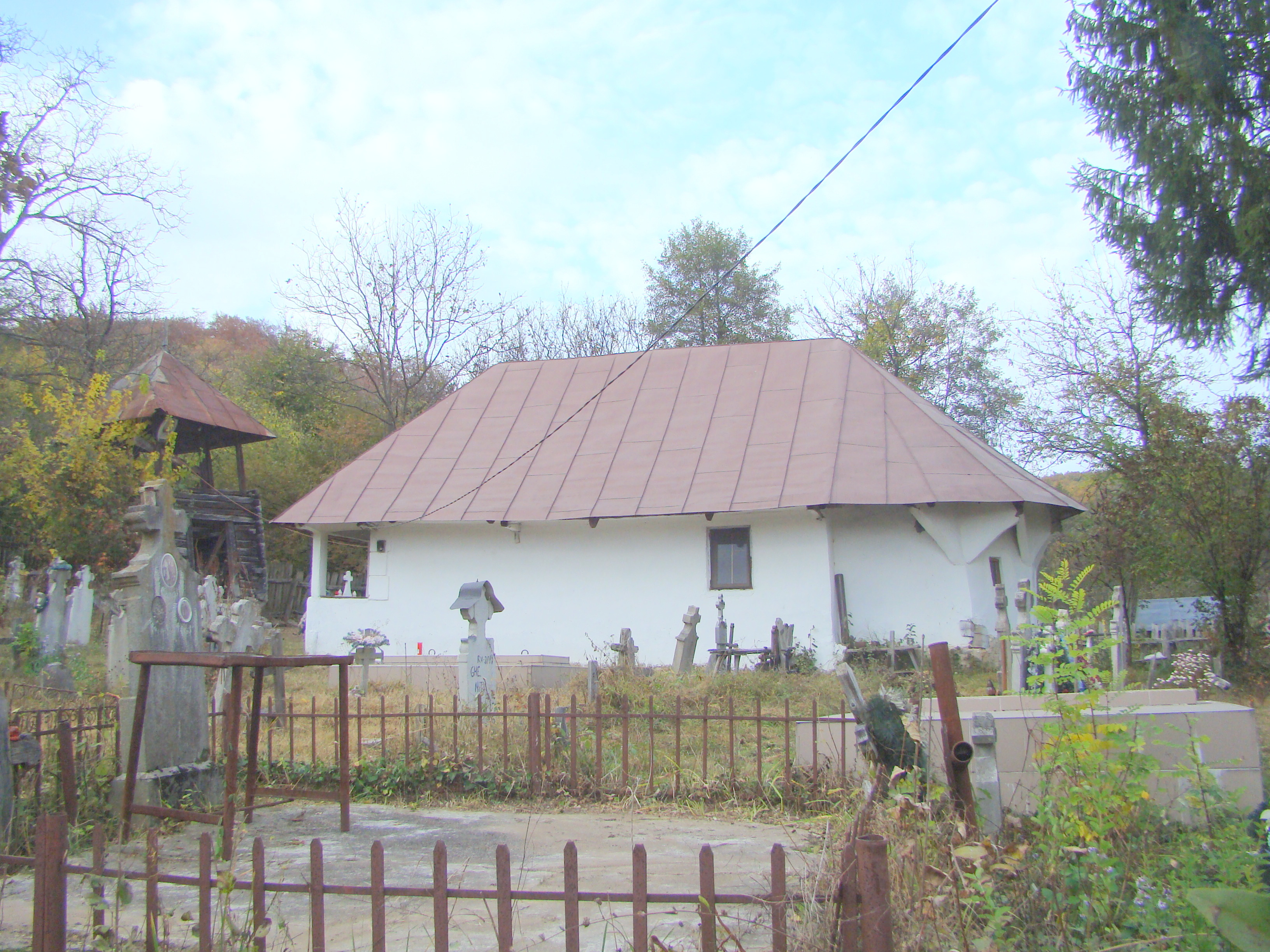 Wooden church in Pistrița, Mehedinți county, Romania